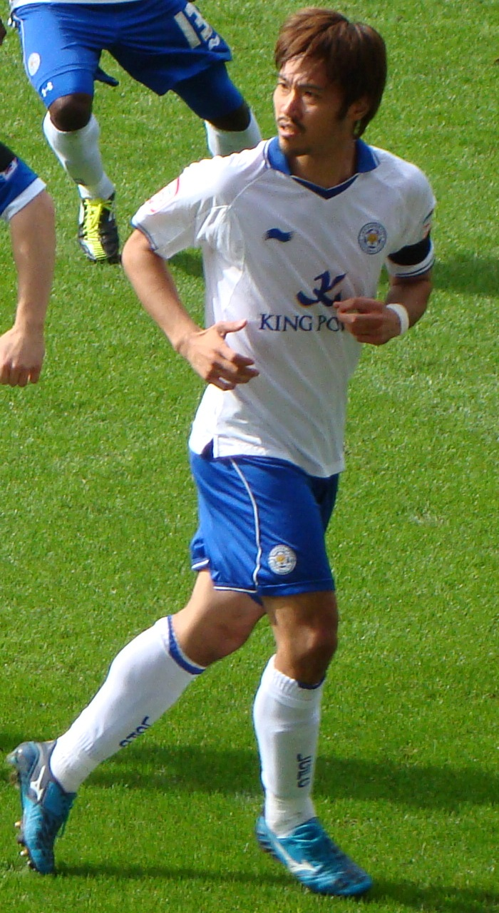 25/09/11 Cardiff V Leicester, Championship, Cardiff City Stadium, Cardiff, Wales